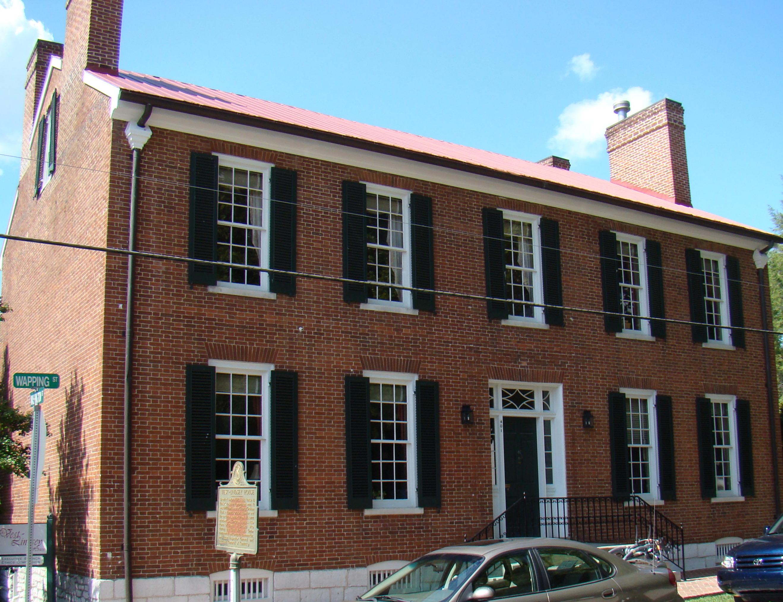 The Vest-Lindsey House is a Federal style building located on the corner of Wapping Street and Washington Street in Frankfort, Kentucky in the Corner of Celebrities Historic District. The property was added to the US National Register of Historic Places in 1971. Currently, the building is owned by the Commonwealth of Kentucky.